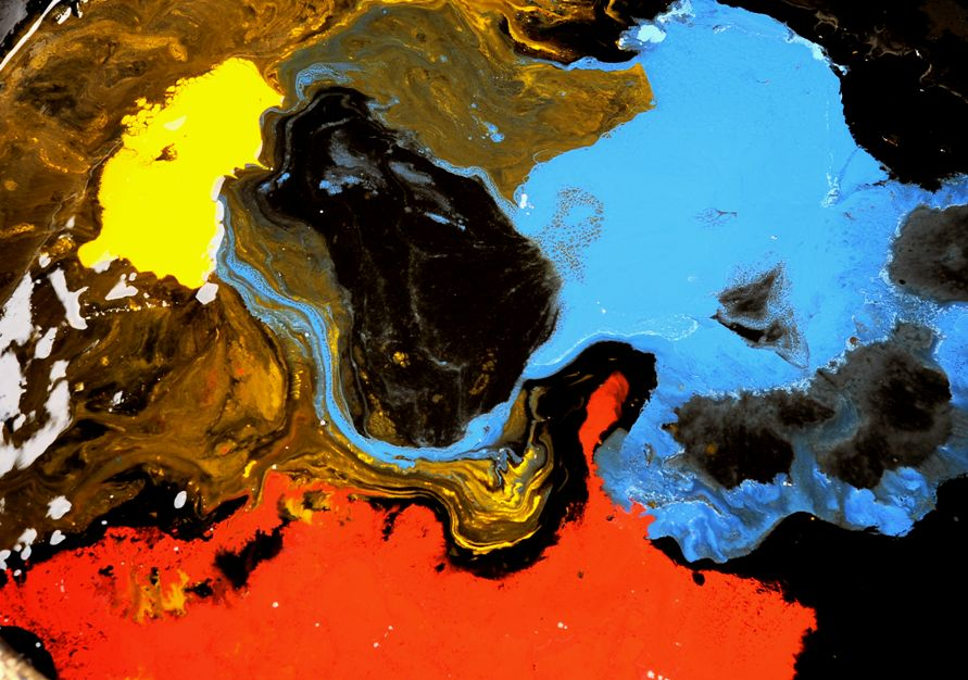 image used in co-processing wiki